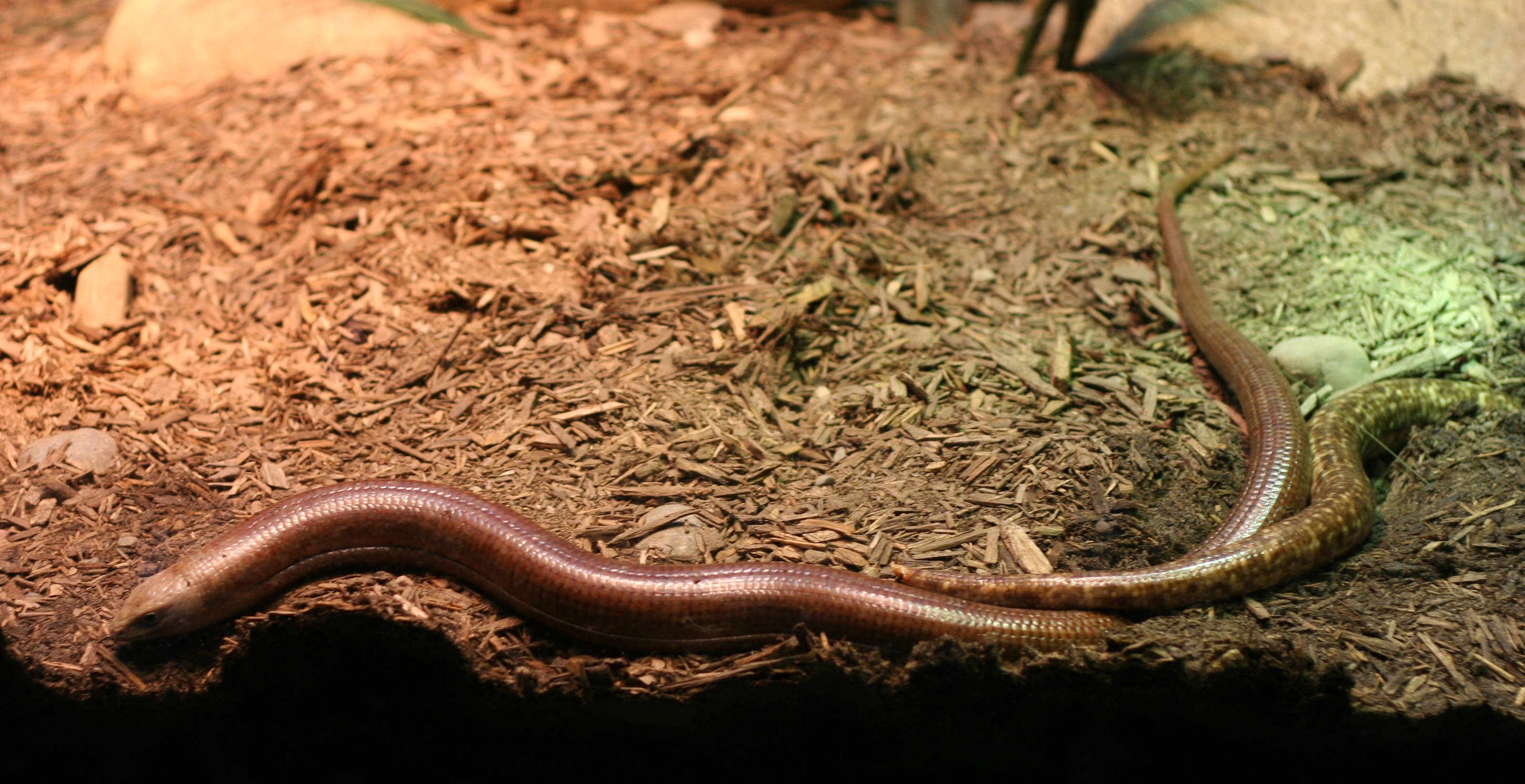 Scheltopusik (Ophisaurus apodus) at the Buffalo Zoo